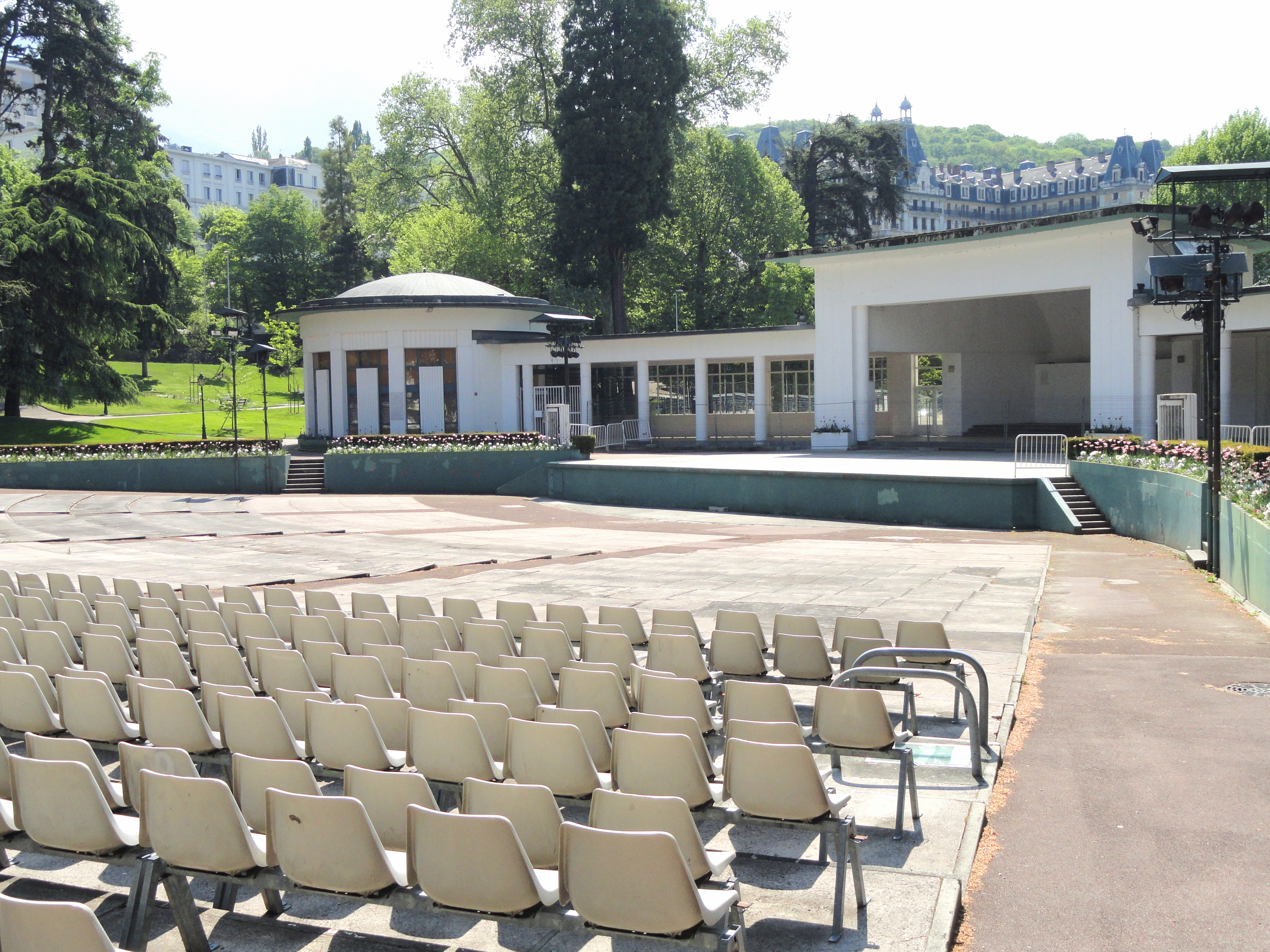 Théâtre de Verdure, Parc floral des Thermes, Aix les-Bains, France.